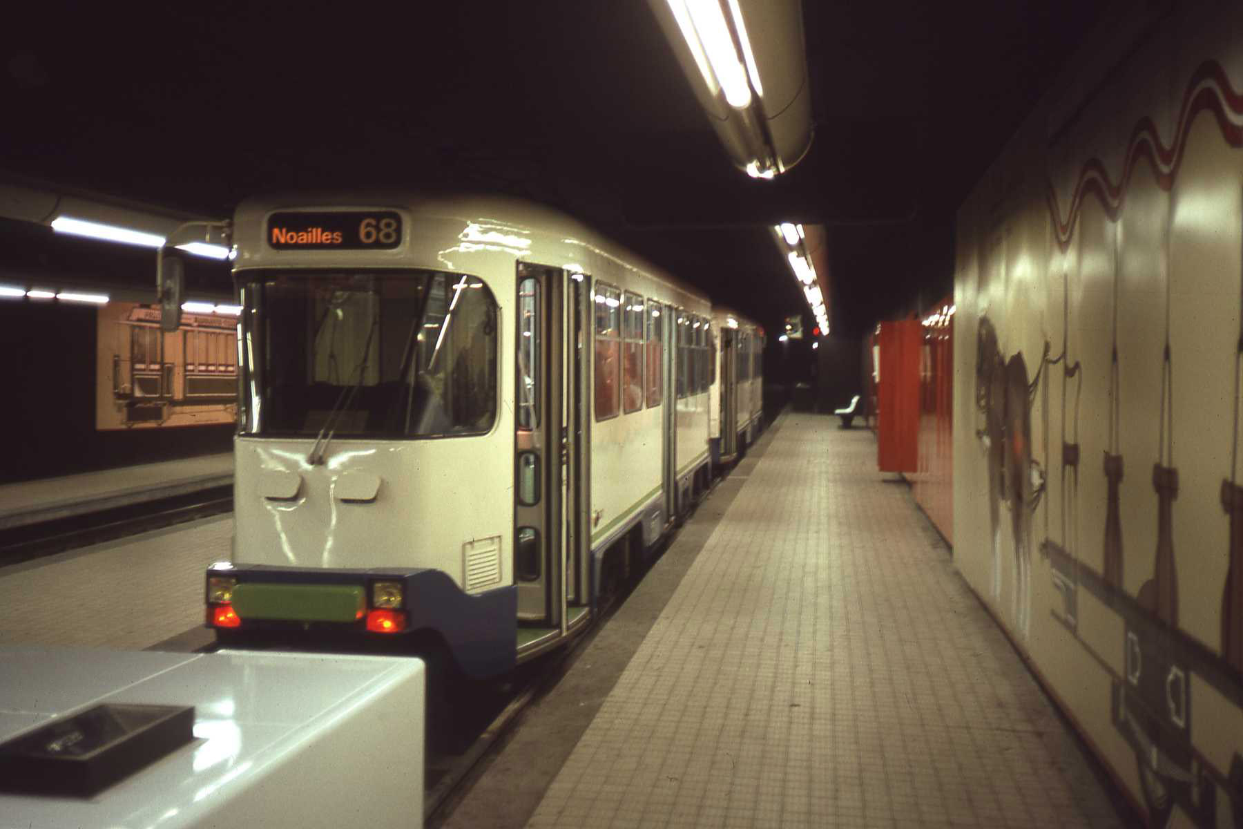 Tram terminus 68, Noailles, in Marseille